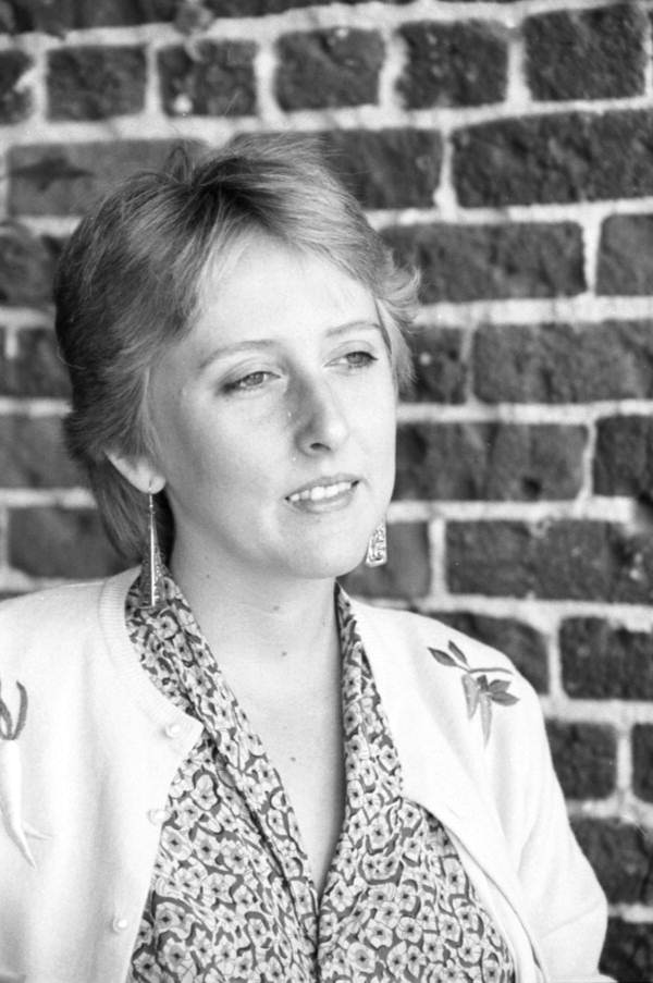 Portrait of Jesse Lee Kercheval - Tallahassee, Florida